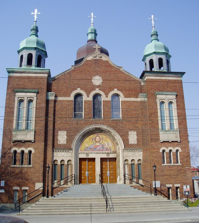 Taken by SimonP in April 2005